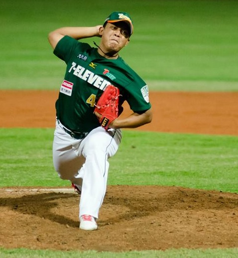 Ching-Ming Wang at a baseball game of Xinzhuang district of Taiwan in October 29, 2013.